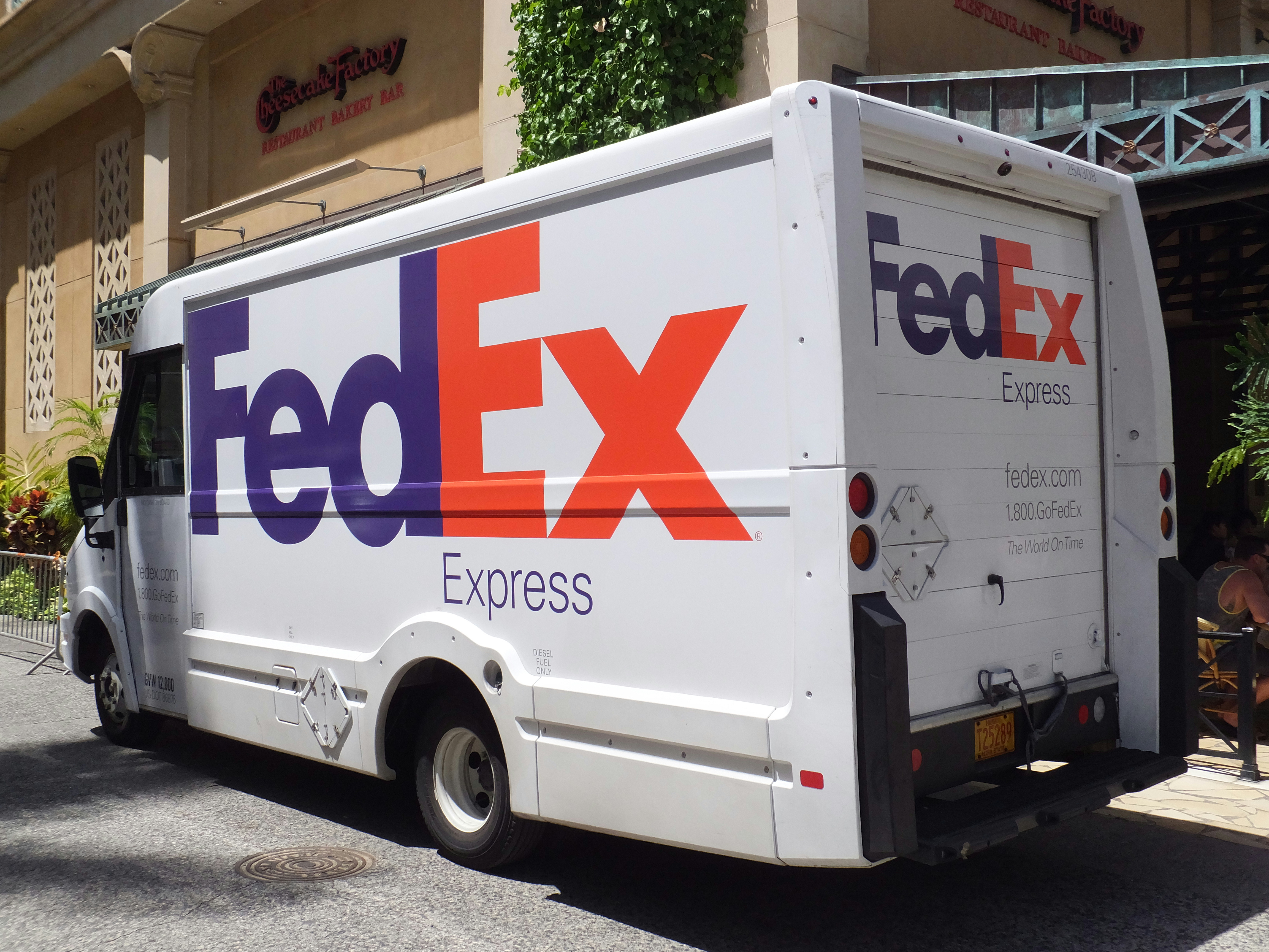 Isuzu Reach, FedEx Delivery Vehicles